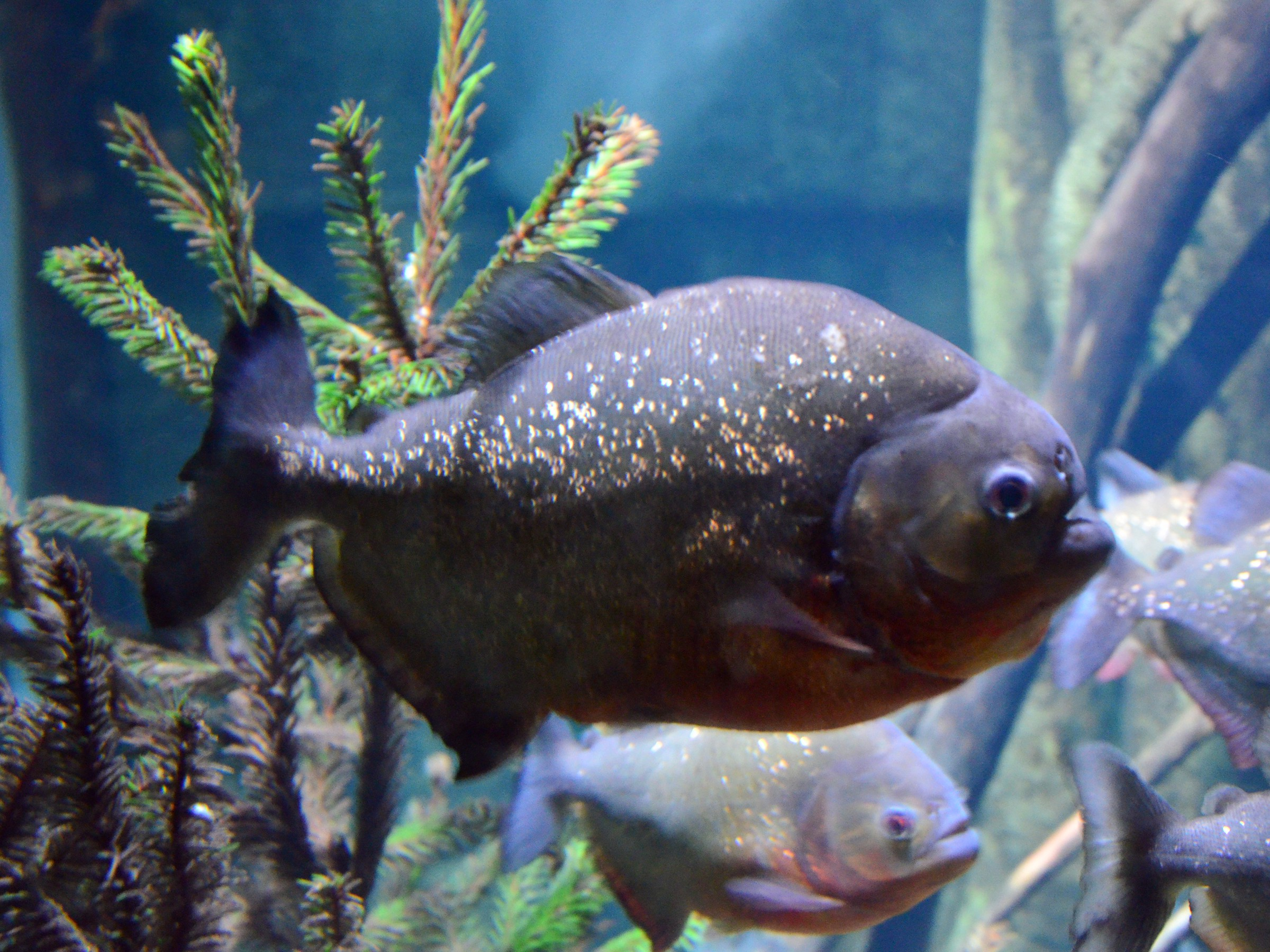 Black-tailed piranha